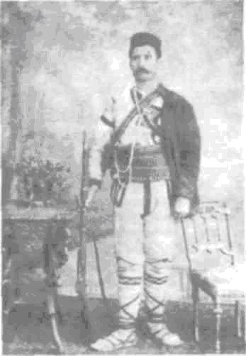 portrait of Vancho Sarbaka